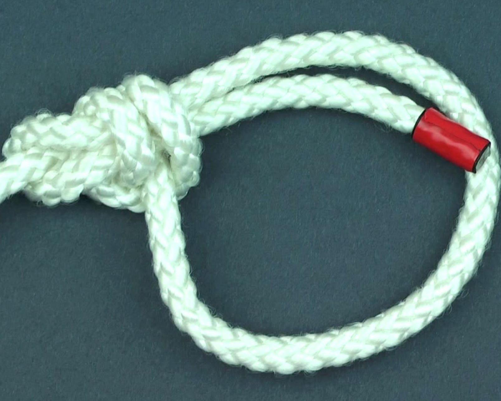 Water bowline (ABOK #1012)